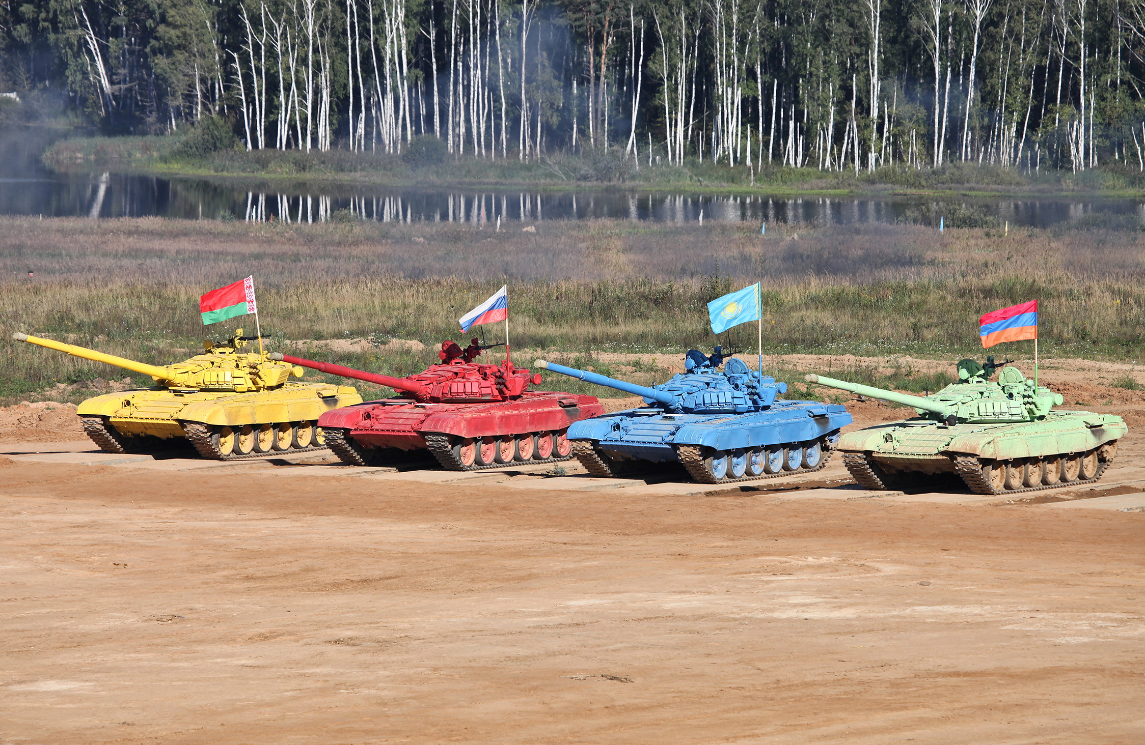 T-72B